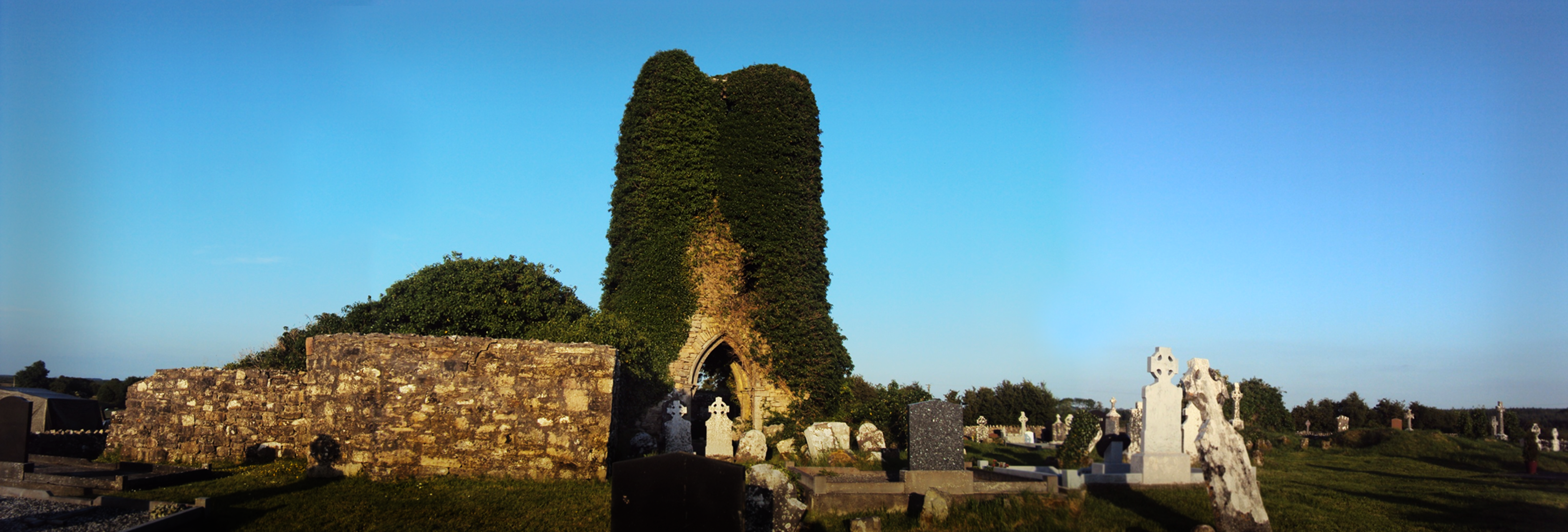 Frenchpark, Roscommon